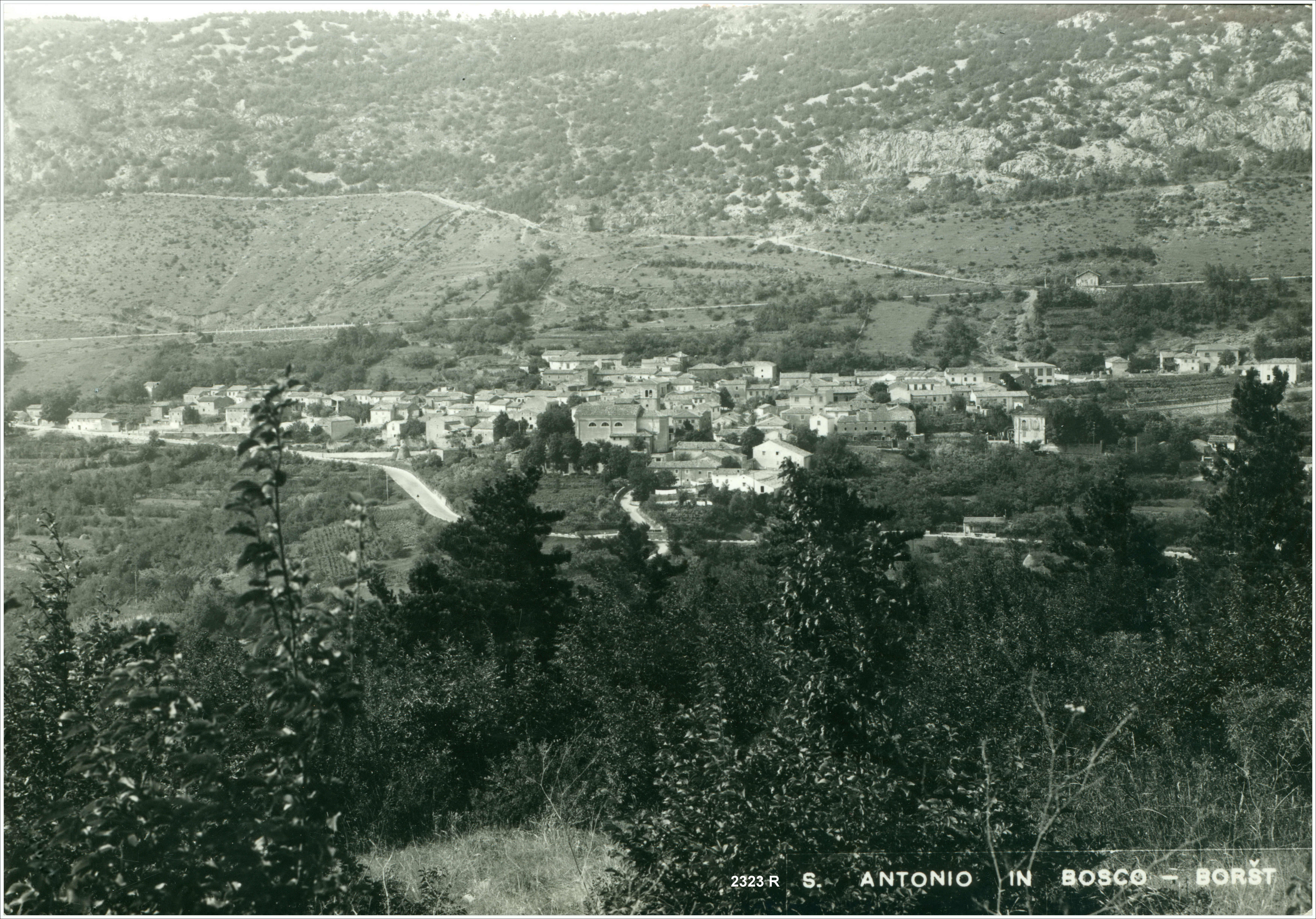 Postcard of Boršt, Koper.